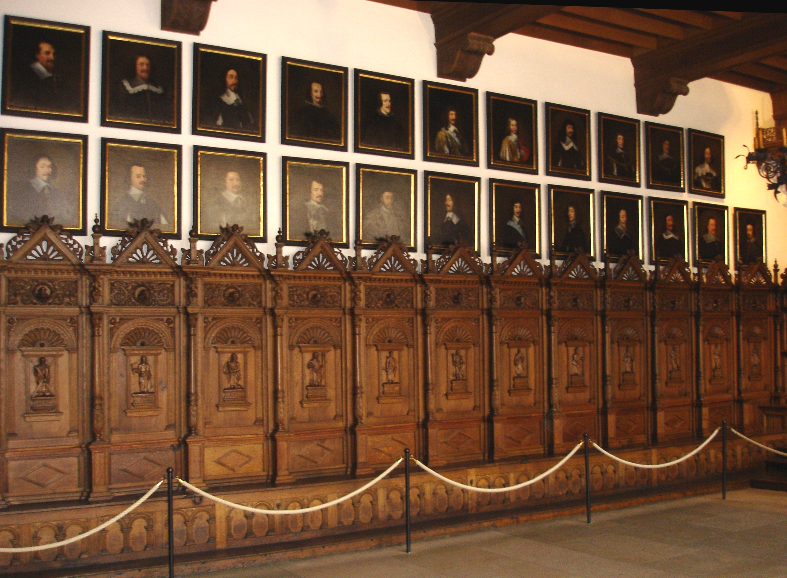 West wall of the "Friedenssaal" in the historical city hall in Münster, Westphalia, Germany